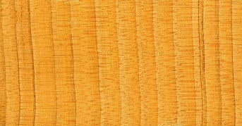 Cedrus wood - photo User:MPF